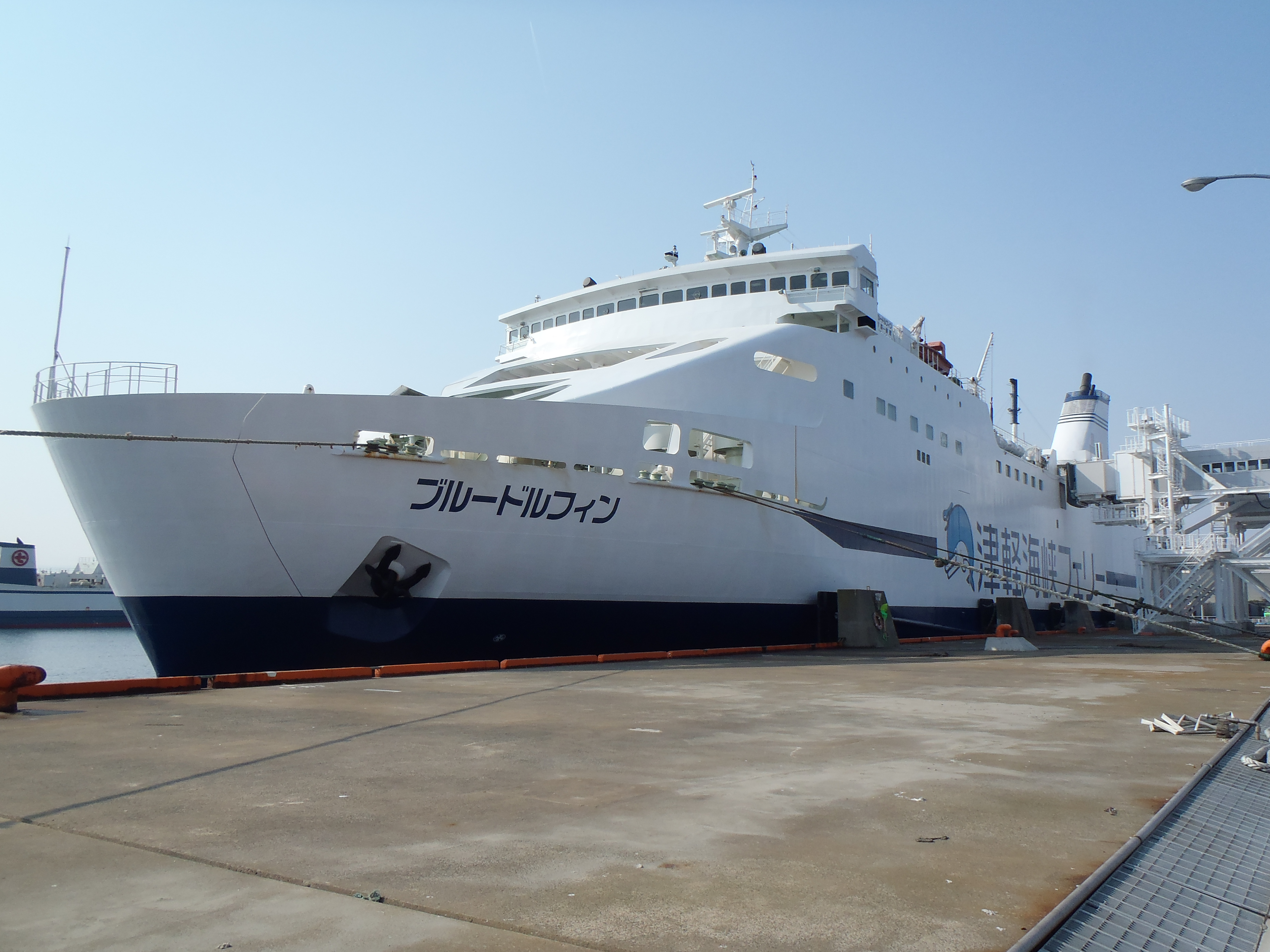 Tsugaru Kaikyo Ferry Blue Dolphin departing the Aomori Ferry Terminal